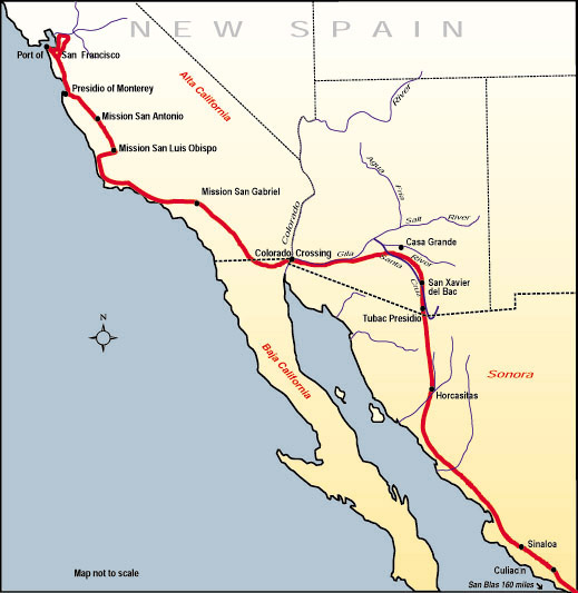 Map of the route, Juan Bautista de Anza travelled in 1775-76 from Mexico to todays San Francisco, where he founded the Presidio of San Francisco